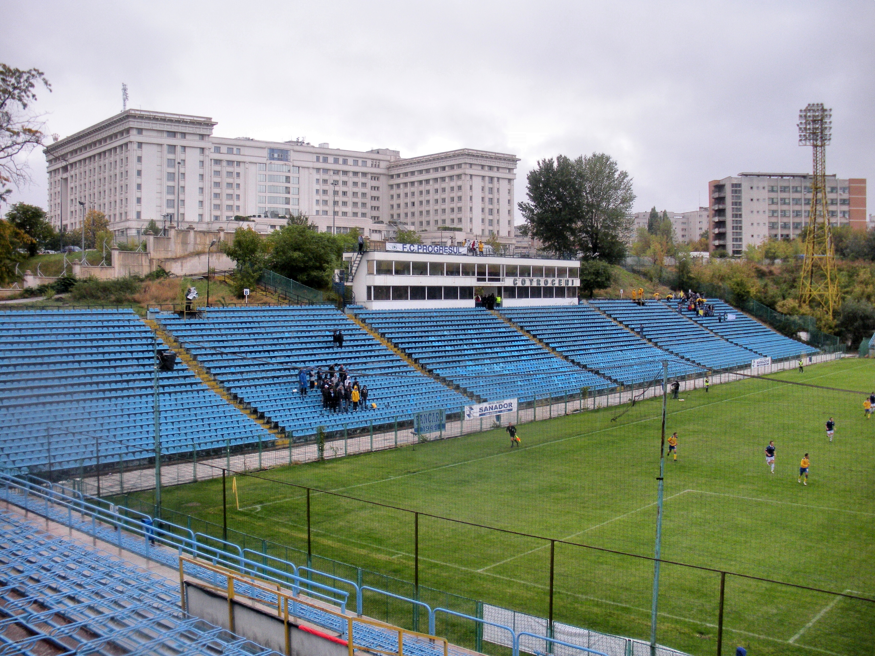 Stadium "Cotroceni" of FC Progresul Bucureşti (Bucharest / Bukarest)